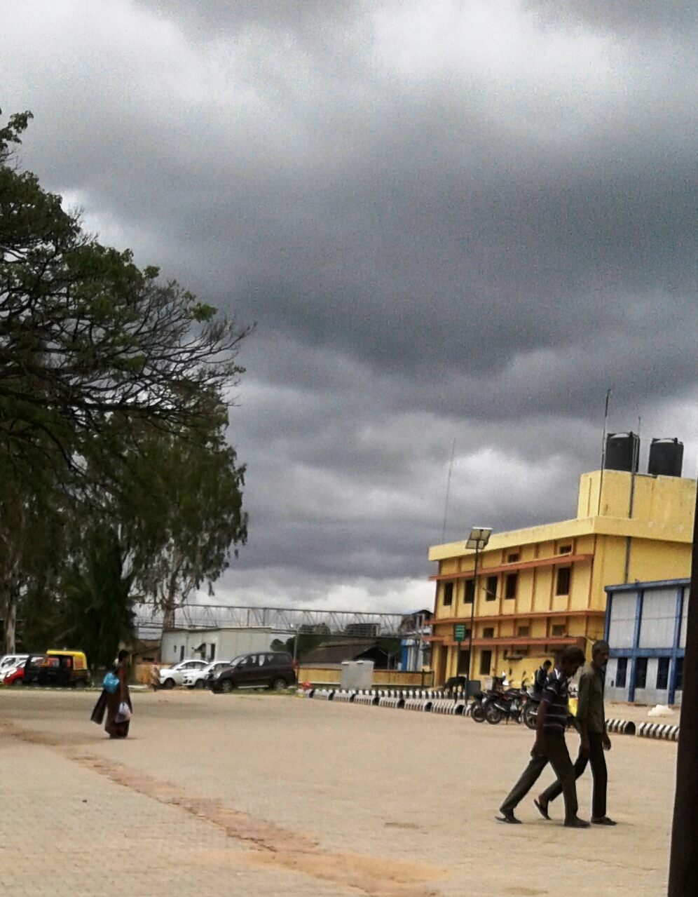 Arsikere, Hassan district, Karnataka state, India.